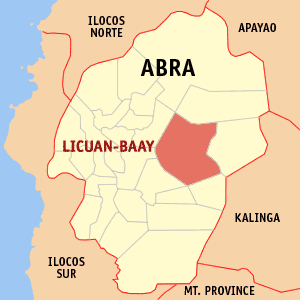 Map of Abra showing the location of Licuan-Baay